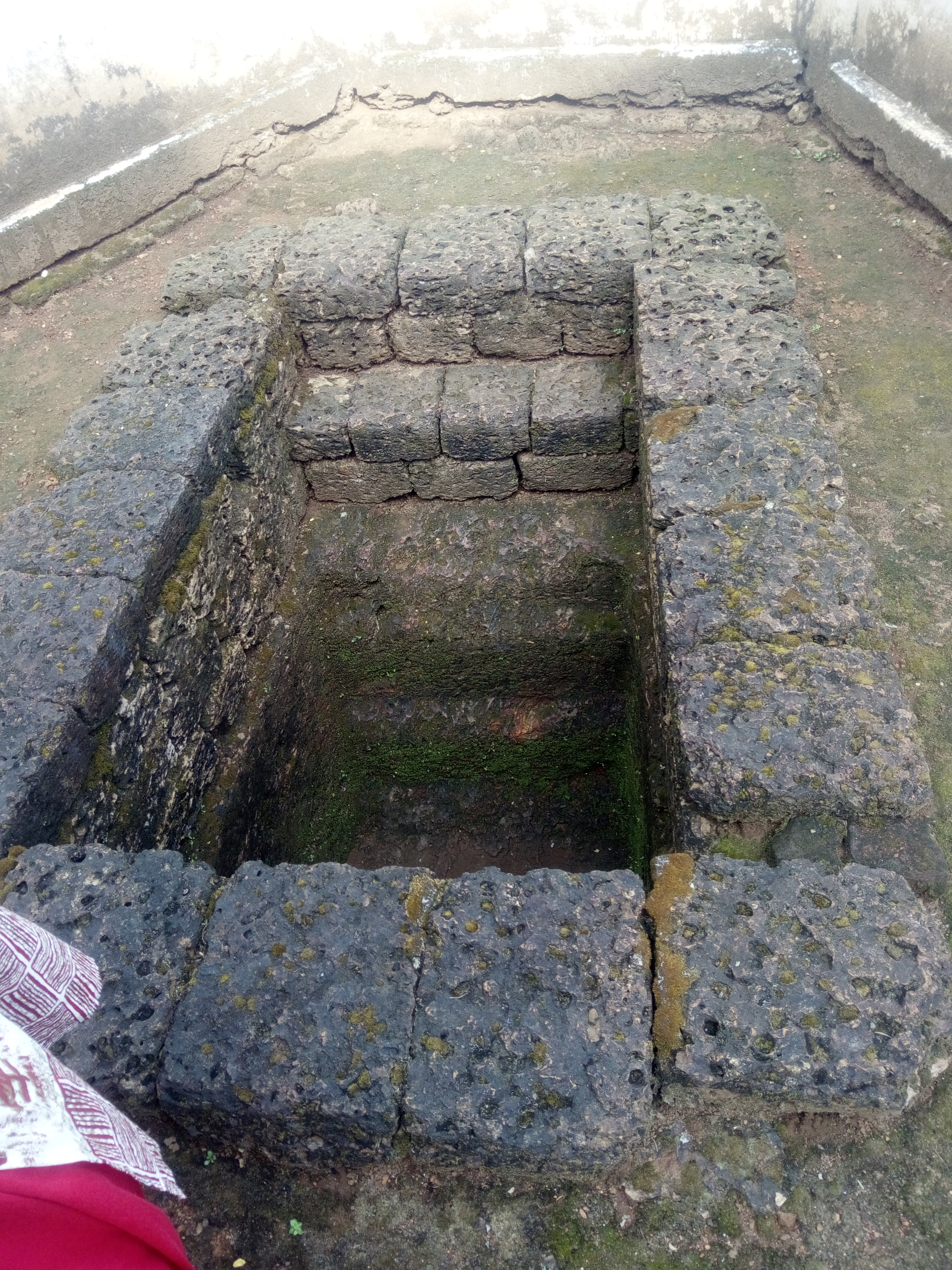 Chovvannur cave, kunnamkulam